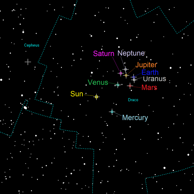 Snapshot of the planetary orbital poles. The field of view is about 30°. The yellow dot in the centre is the Sun's North pole. Off to the side, the orange dot is Jupiter's orbital pole. Clustered around it are the other planets: Mercury in pale blue (closer to the Sun than to Jupiter), Venus in green, the Earth in blue, Mars in red, Saturn in violet, Uranus in grey (partly underneath Earth) and Neptune in lavender. Pluto is the dotless cross off in Cepheus. Note: The orbital poles of Jupiter, Saturn and Neptune are incorrect. Use File:Snapshot of the planetary orbital poles (corrected).png instead.